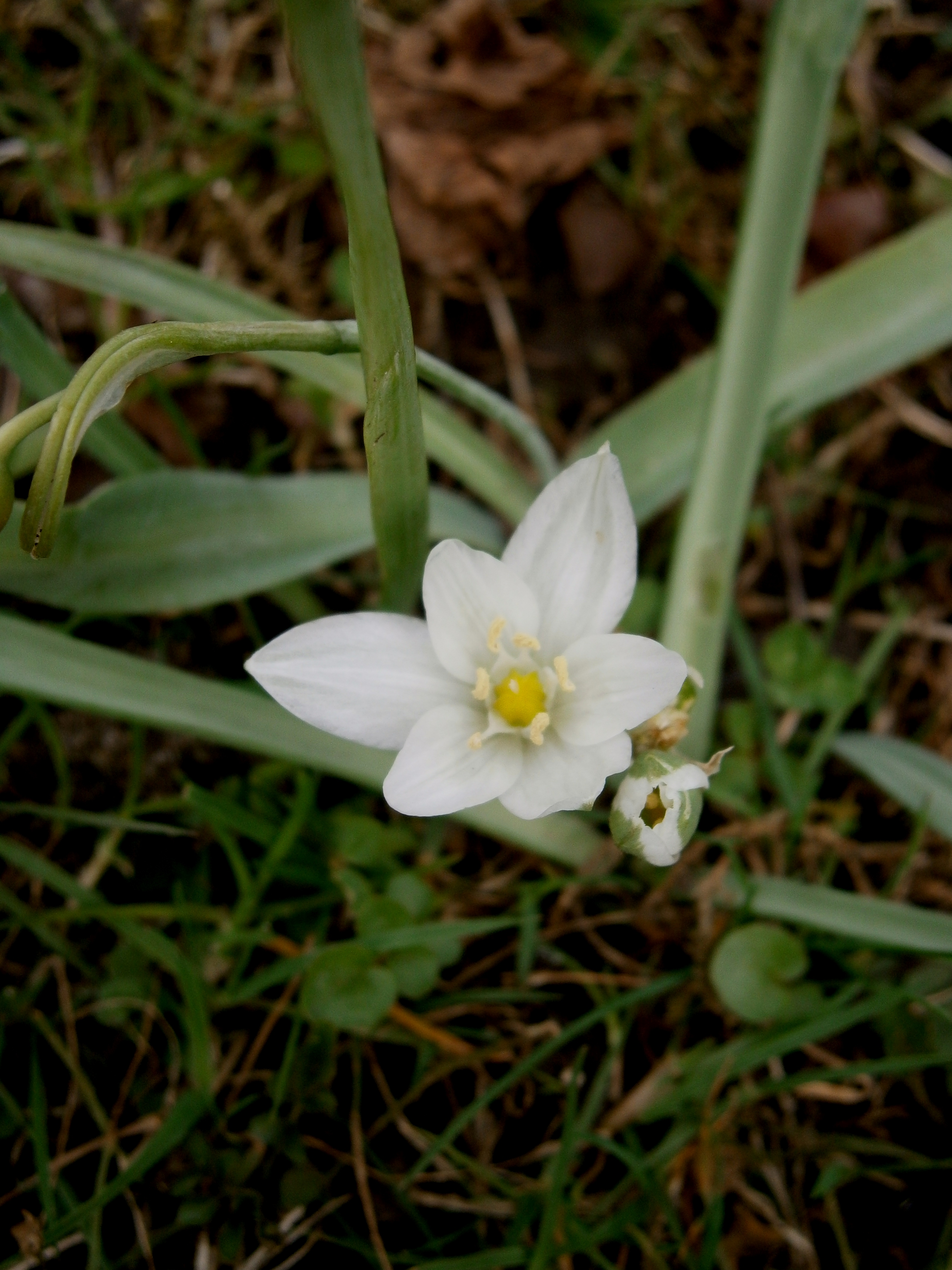 Ornithogalum balansae